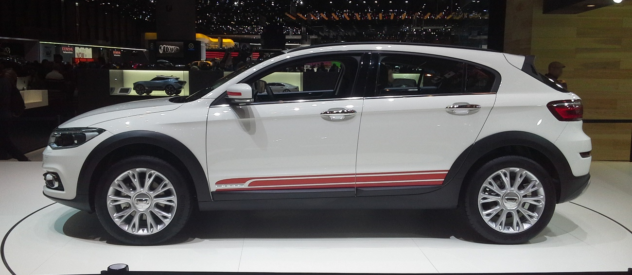 Qoros 3 City SUV photographed at the 2015 Geneva Motor Show, Geneva, Switzerland.